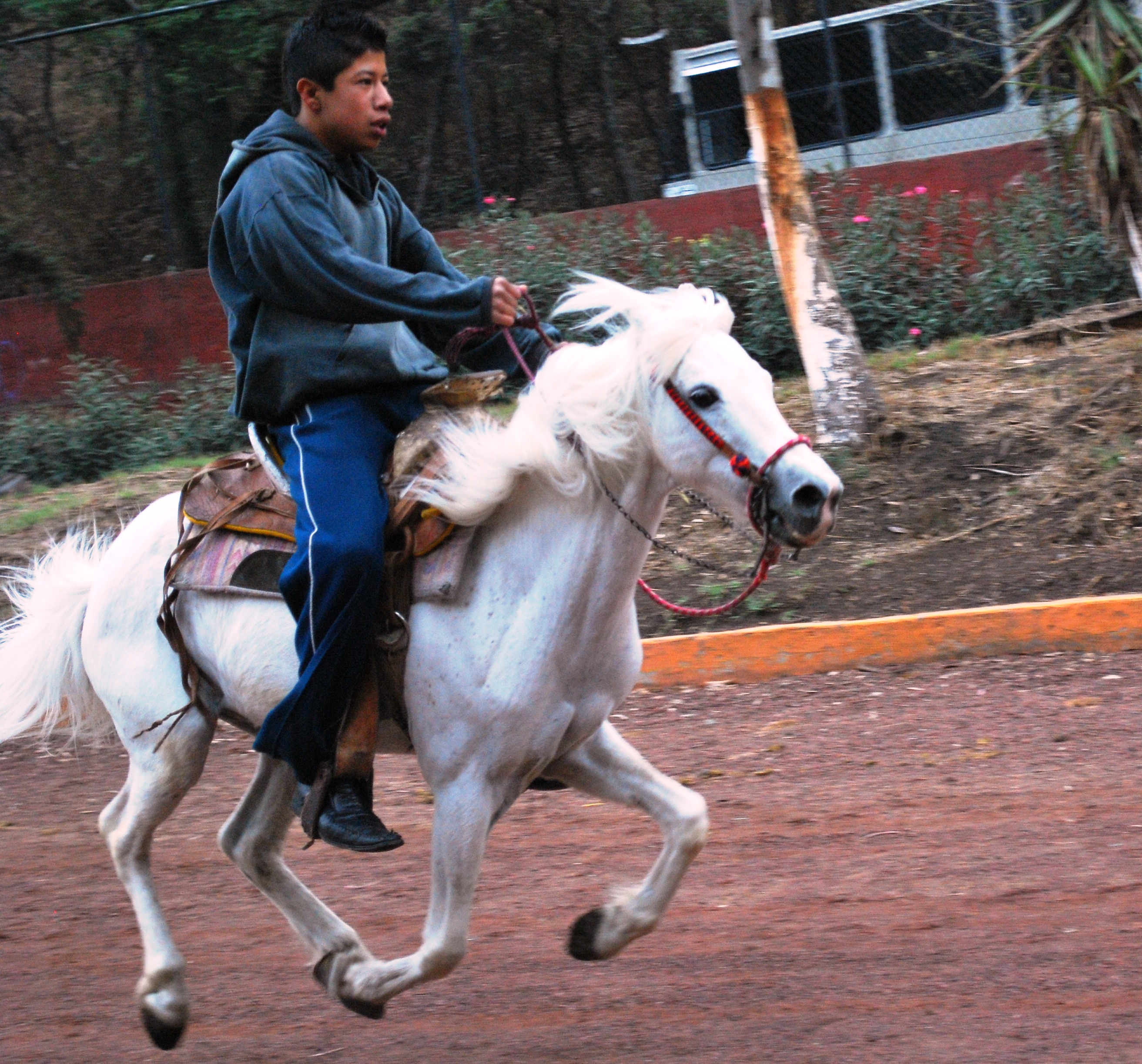 Boy riding a horse at the Bosque de Nativitas Park in Xochimilco, Mexico City